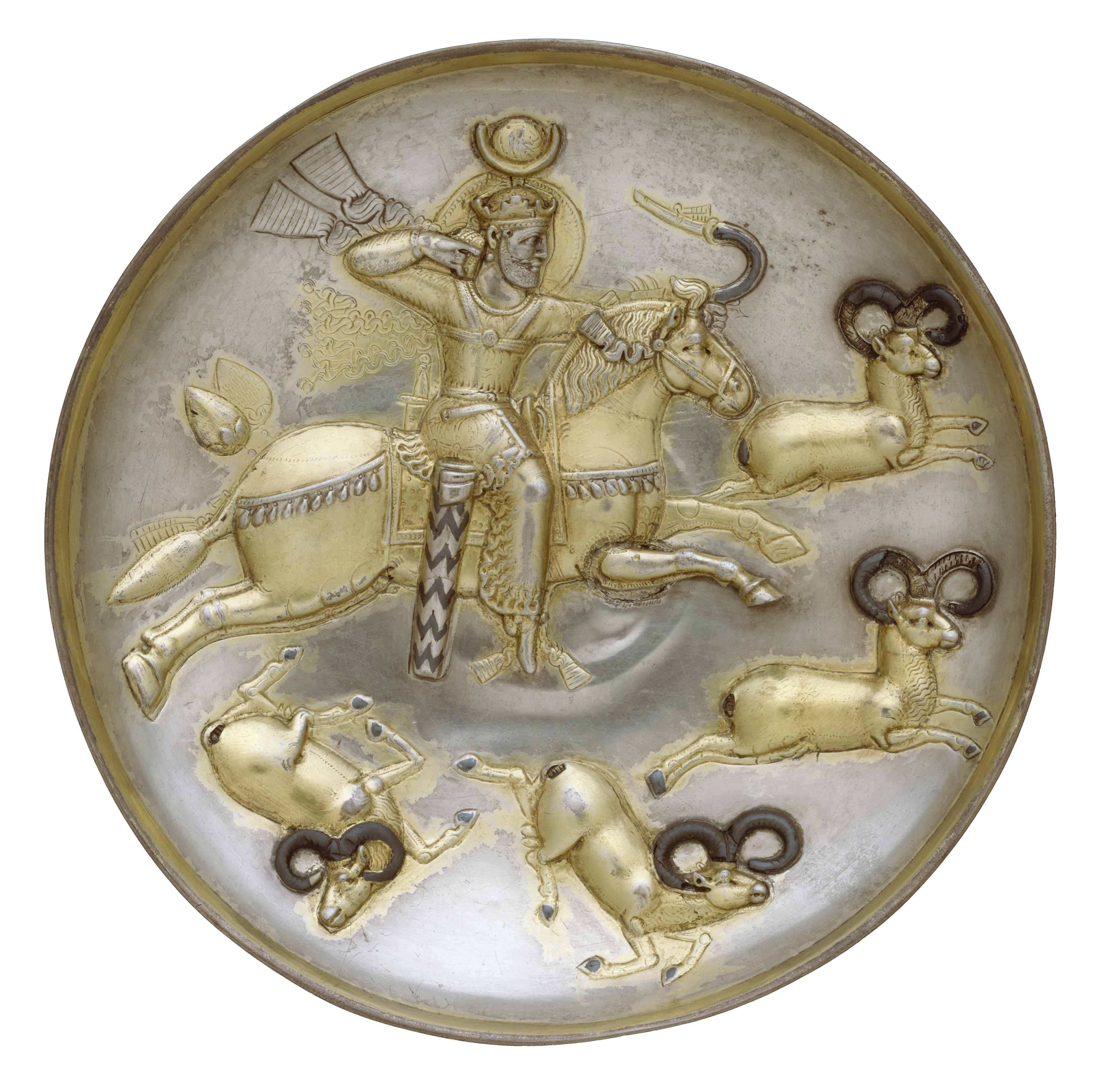 According to Matthew Canepa, the king portrayed on the plate is Kavad I (The Two Eyes of the Earth: Art and Ritual of Kingship Between Rome and Sasanian Iran, p. 161).